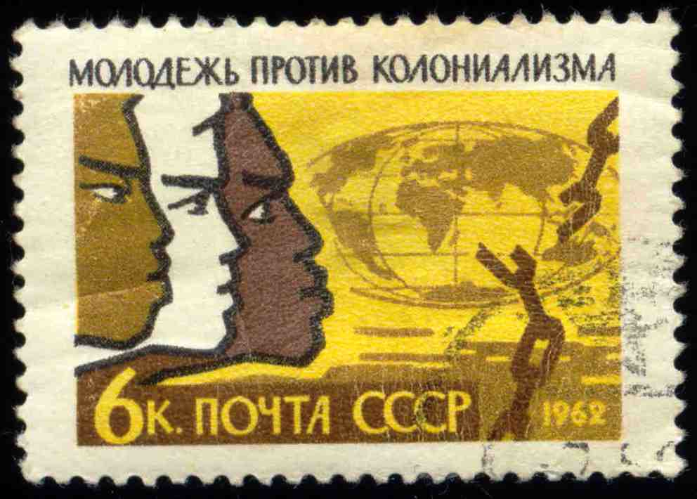 Soviet Union stamp, Youth against colonialism, young people from various continents; 1962, 6 kop., used, CPA No. 2676.